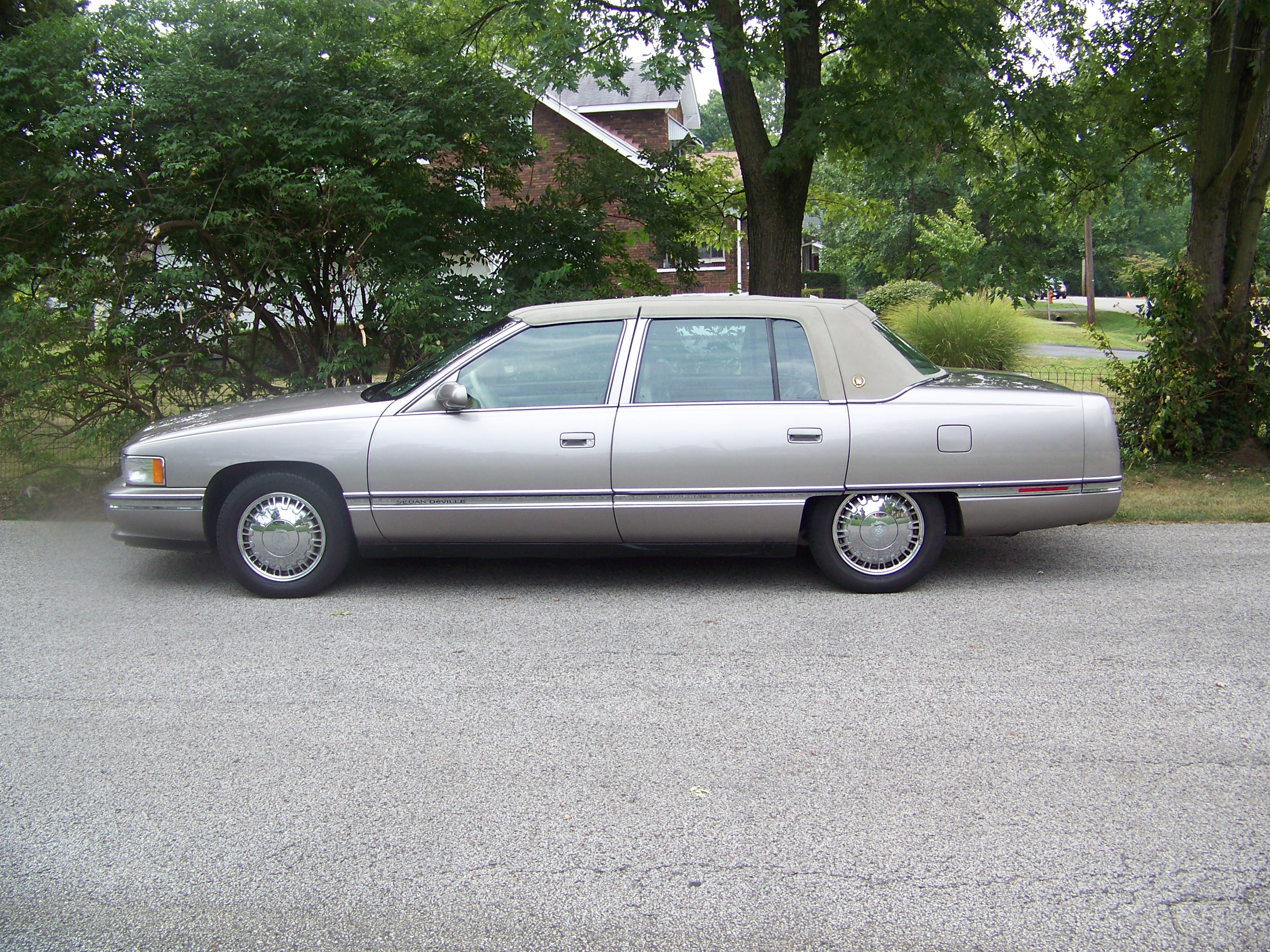 1996 concours touring cadillac